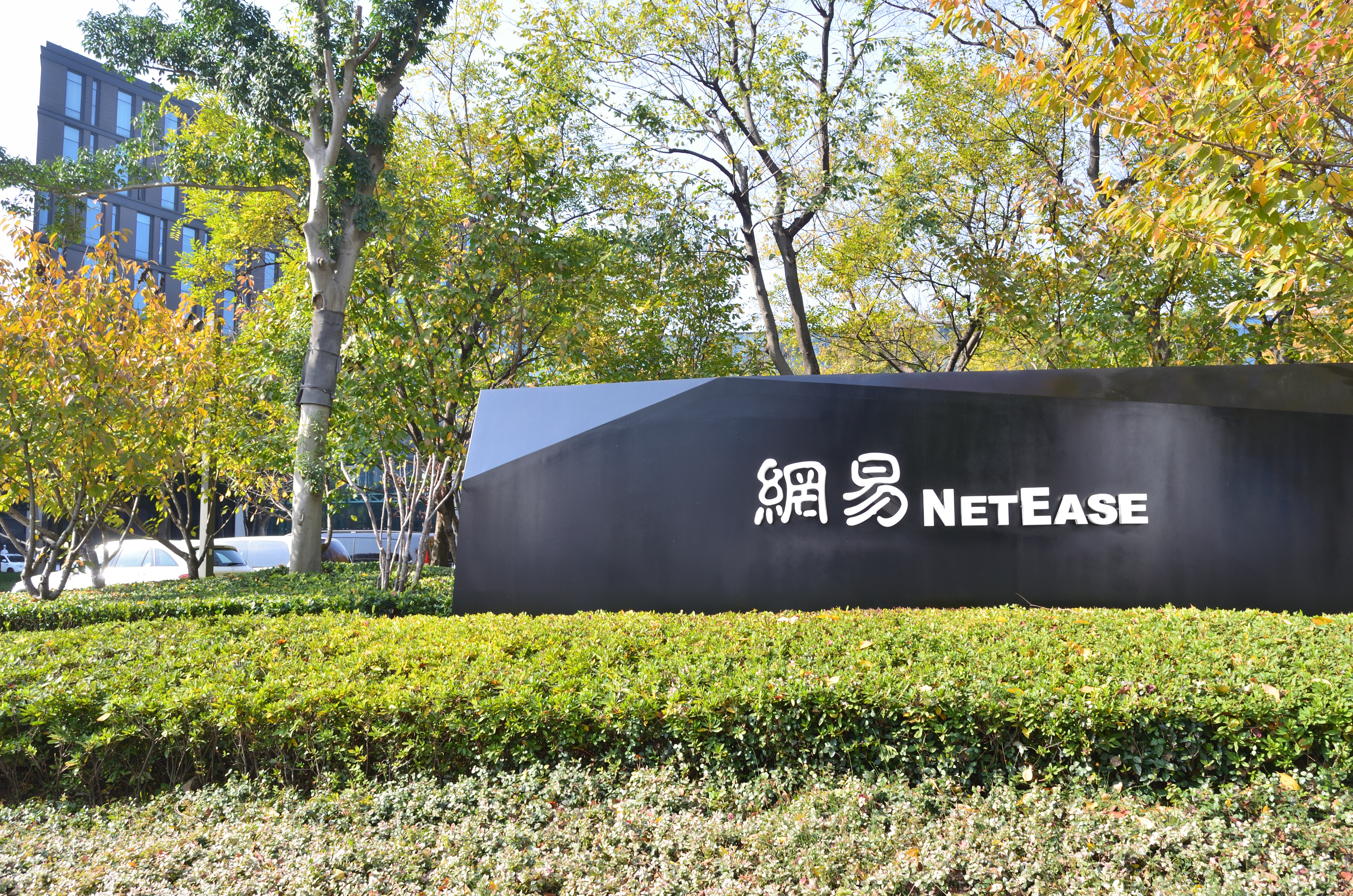 NetEase office in Hangzhou - Address: 599 Wangshang Road Binjiang District Hangzhou, 310052 China